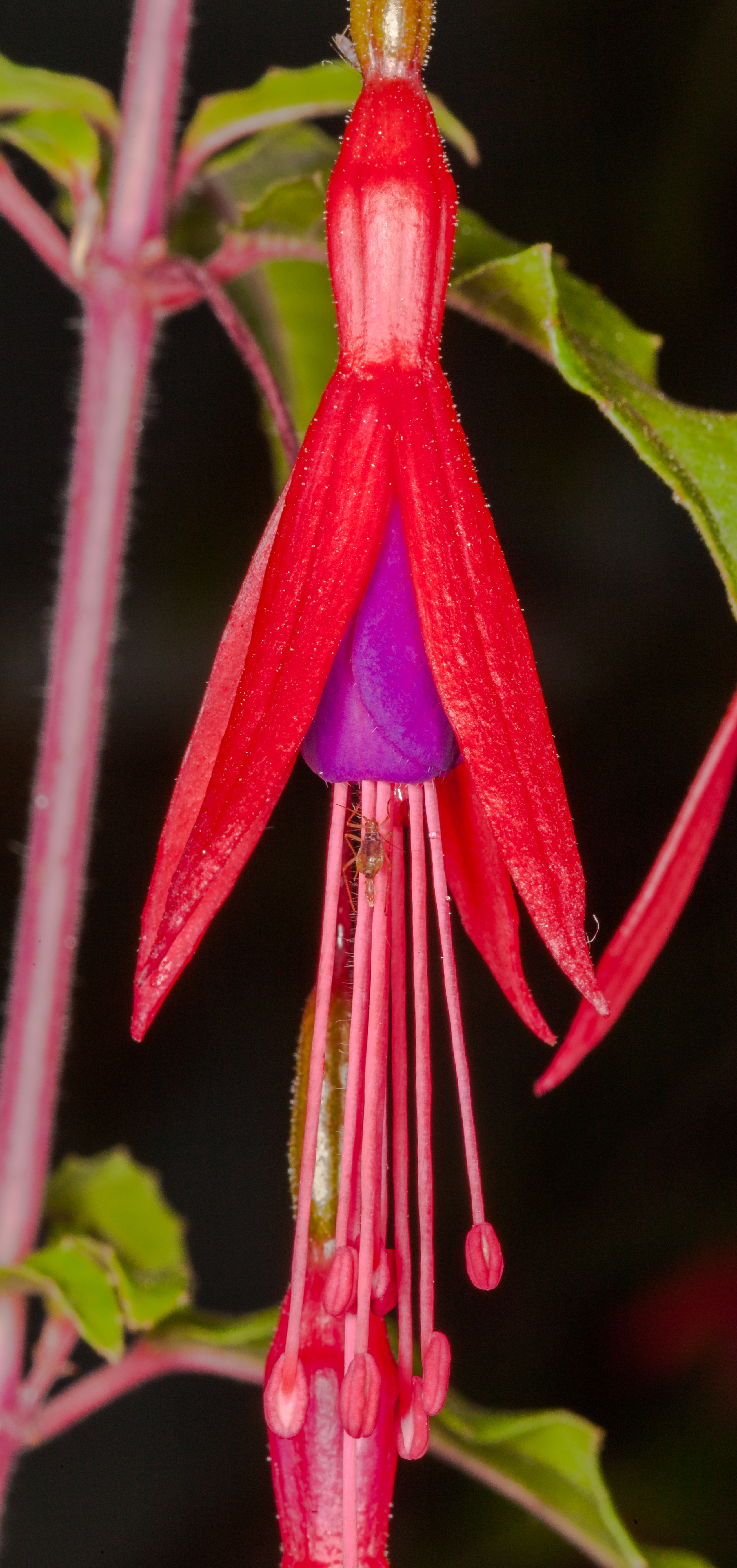 Fuchsia magellanica 'Pumile', Munich Botanical Garden, Germany